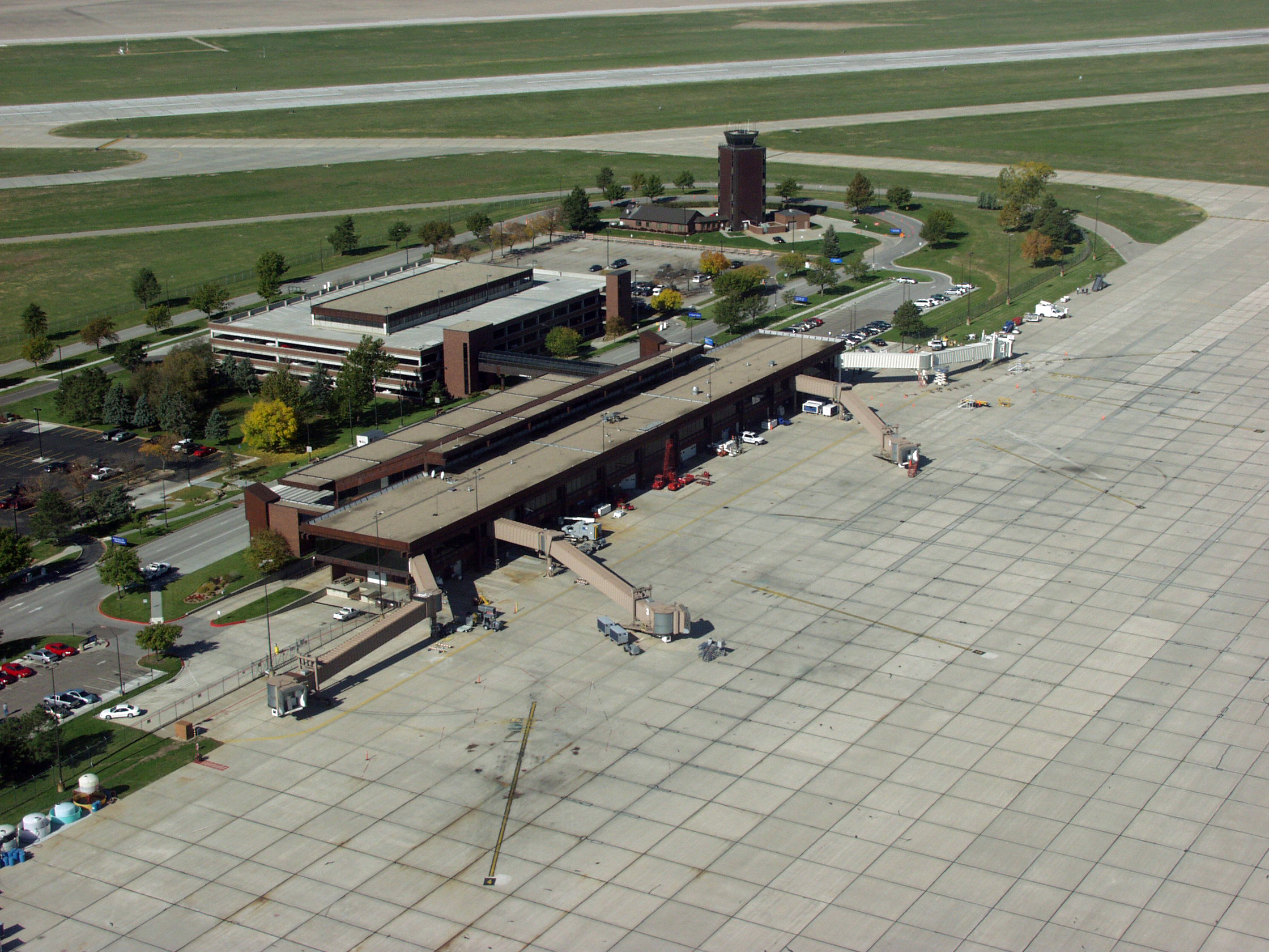 The Lincoln, Neb., airport, showing all four gates, the terminal, parking garage and control tower.